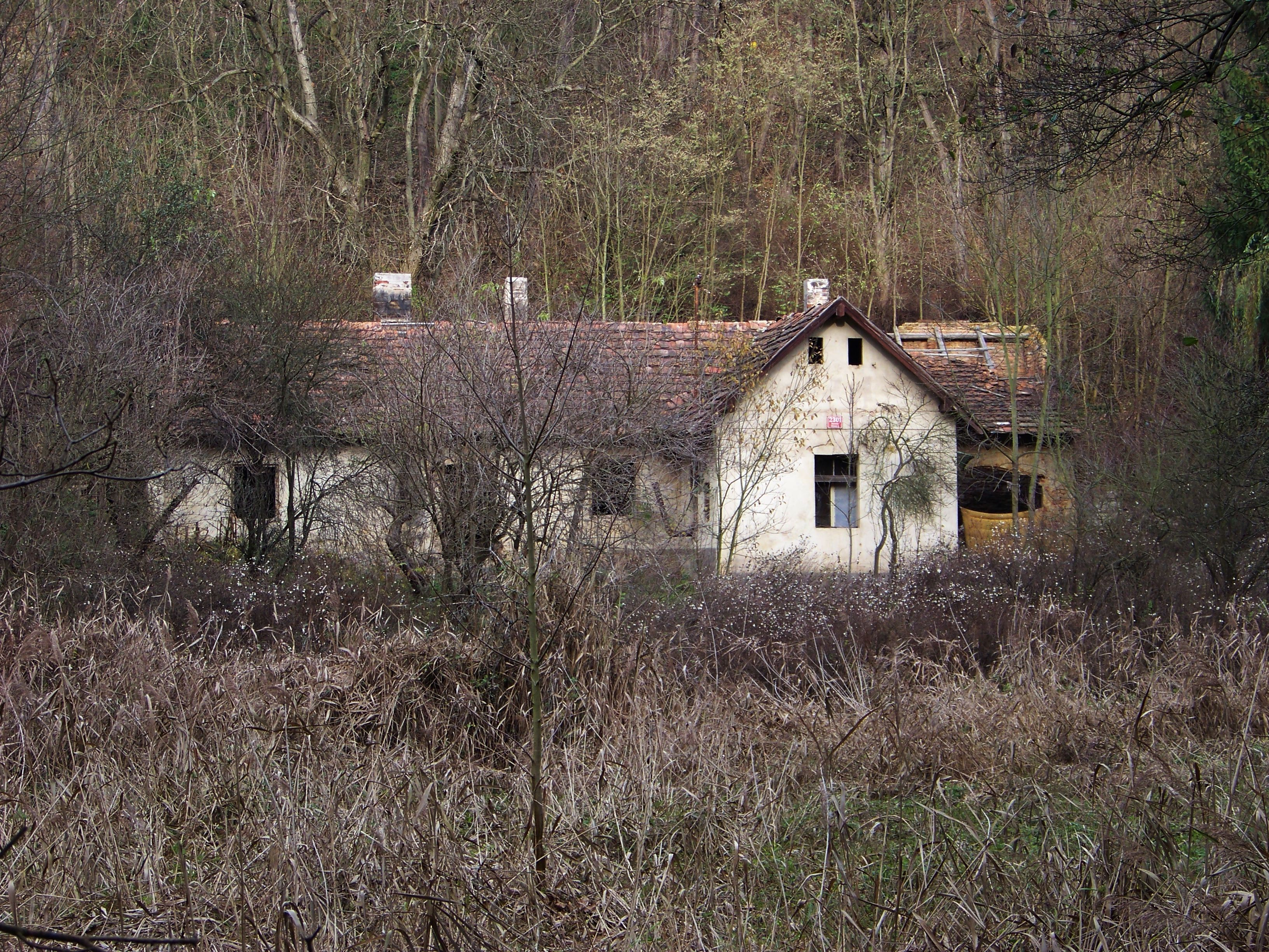 Prague-Dejvice, the Czech Republic. U Vizerky 2301/2.